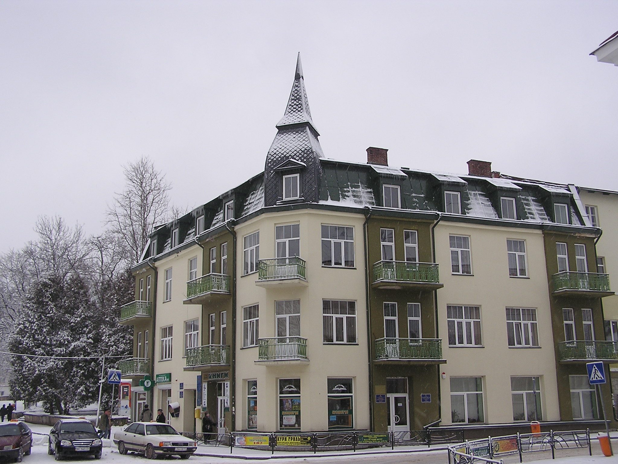 Truskavets